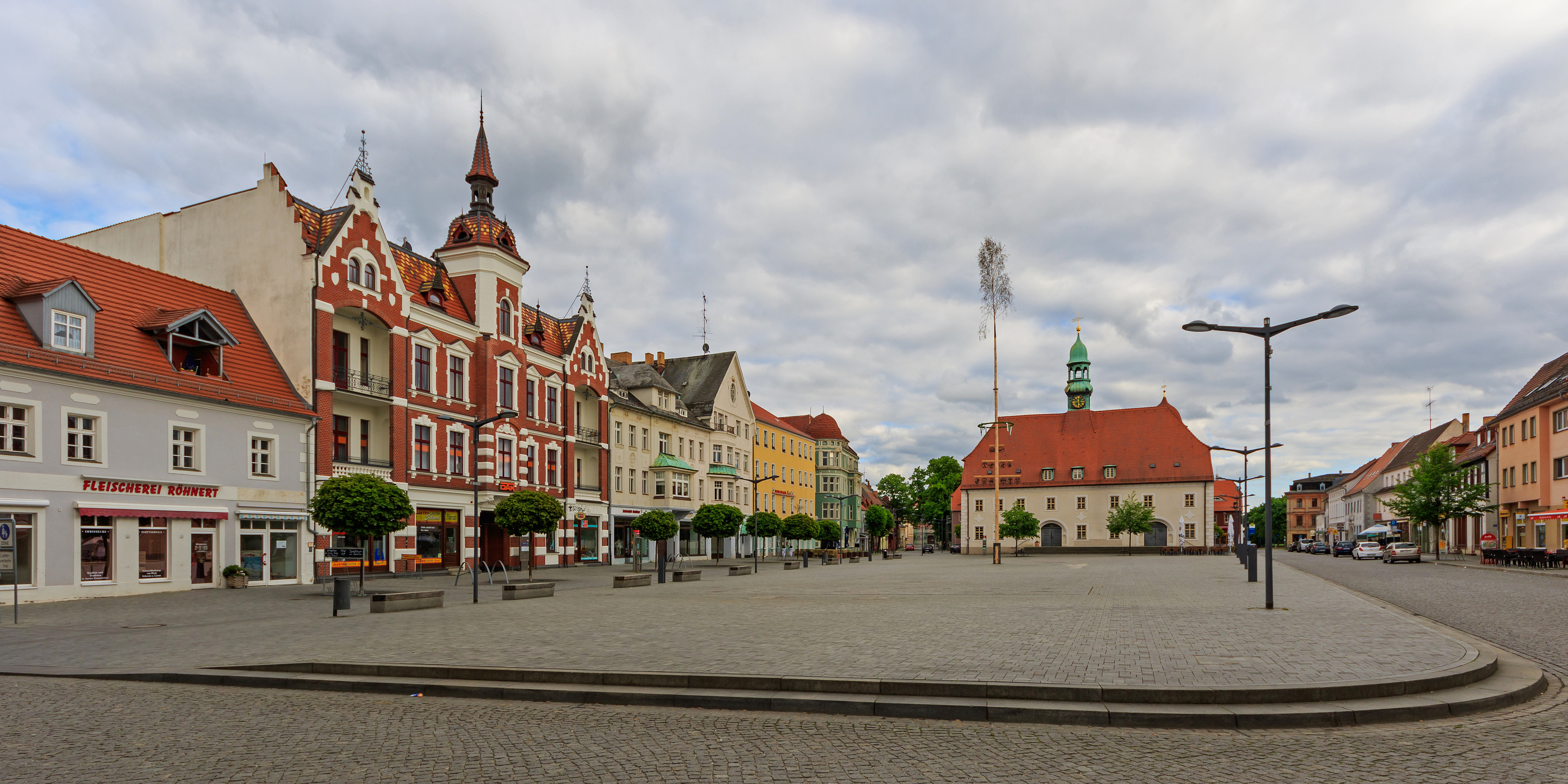 Finsterwalde (Brandenburg, Germany): Market Square